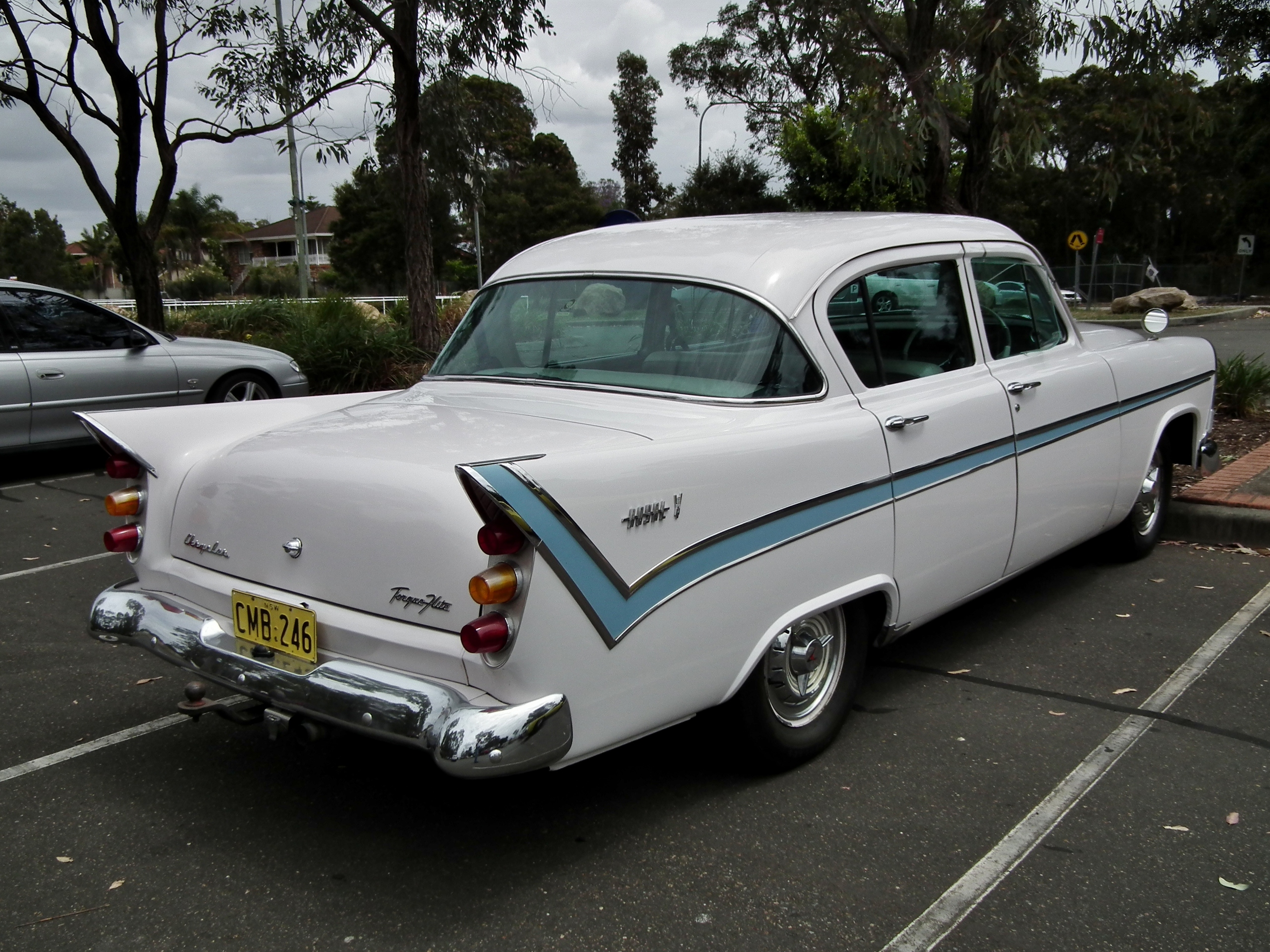 1961 Chrysler AP3 Royal V8 sedan. Taken in the car park at the 2012 New South Wales All Chrysler Day, held at Fairfield Showground, Prairiewood, Sydney.